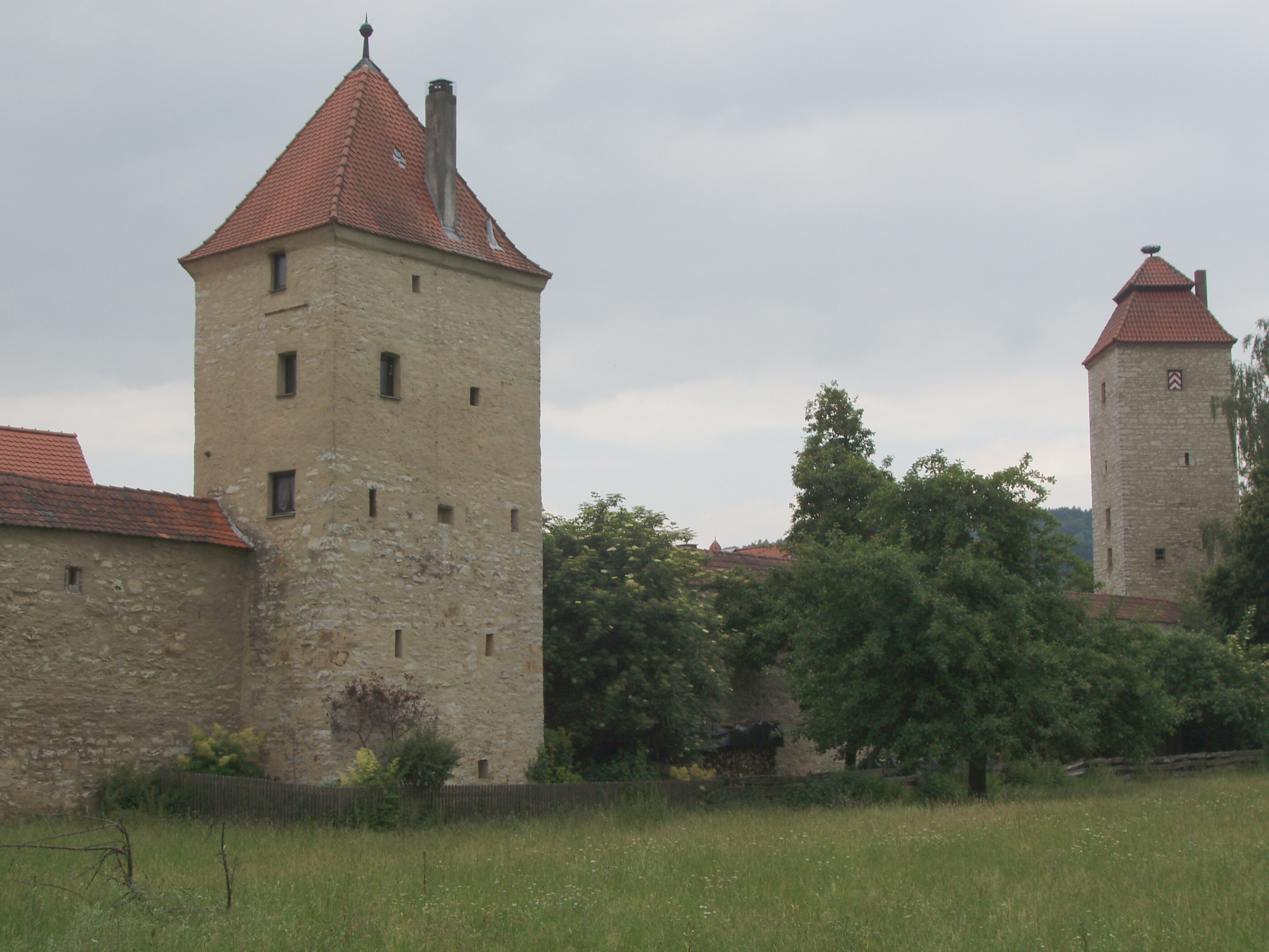 an apartment and a tower positioned along the city wall in Berching.